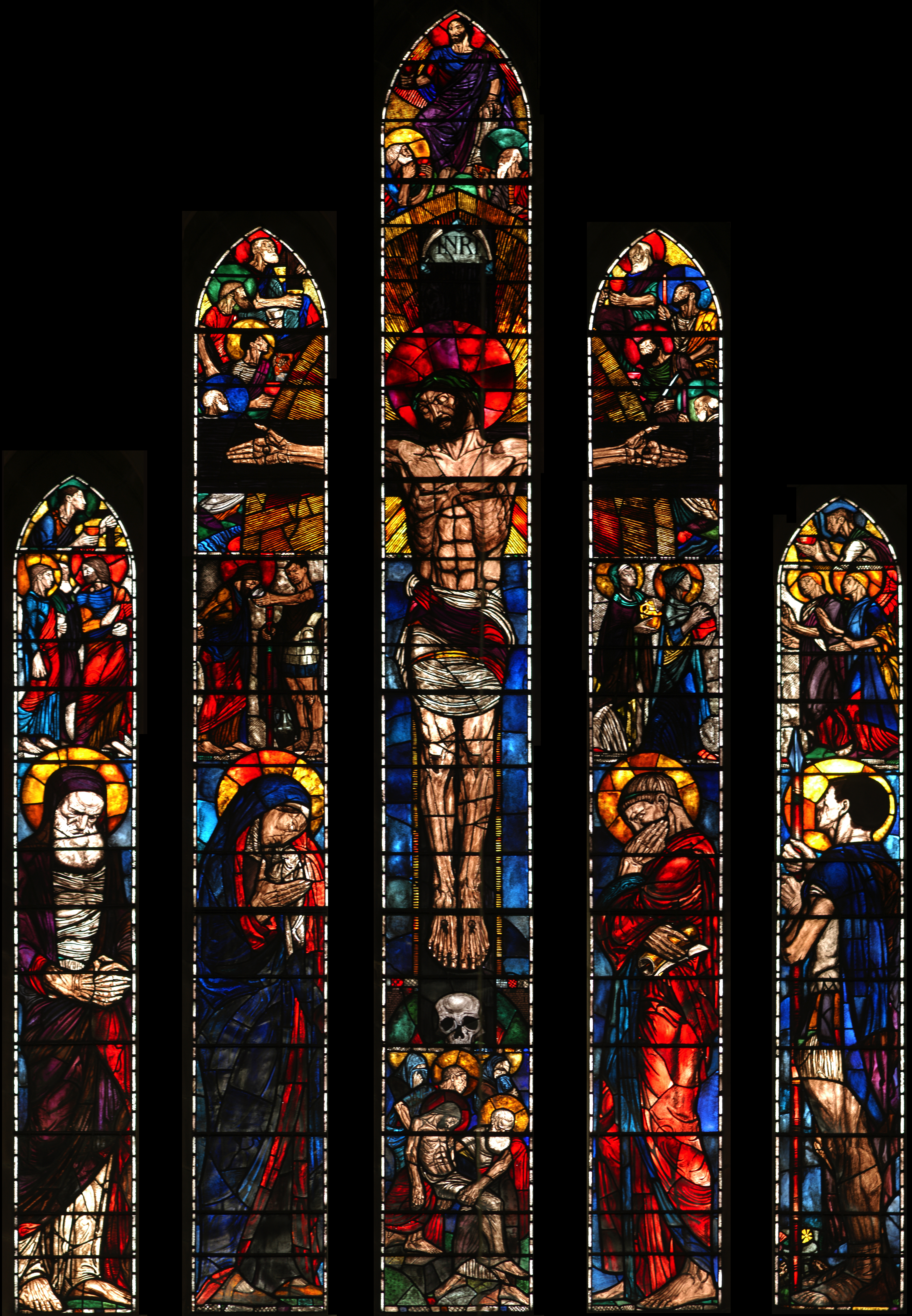 Made by Geddes as a memorial to the men of the parish of Wallsend St Luke who were killed during the First World War